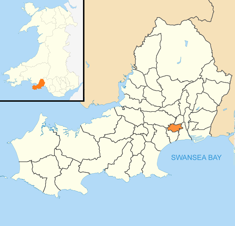 Location map of the community of Townhill in the city of Swansea, Wales